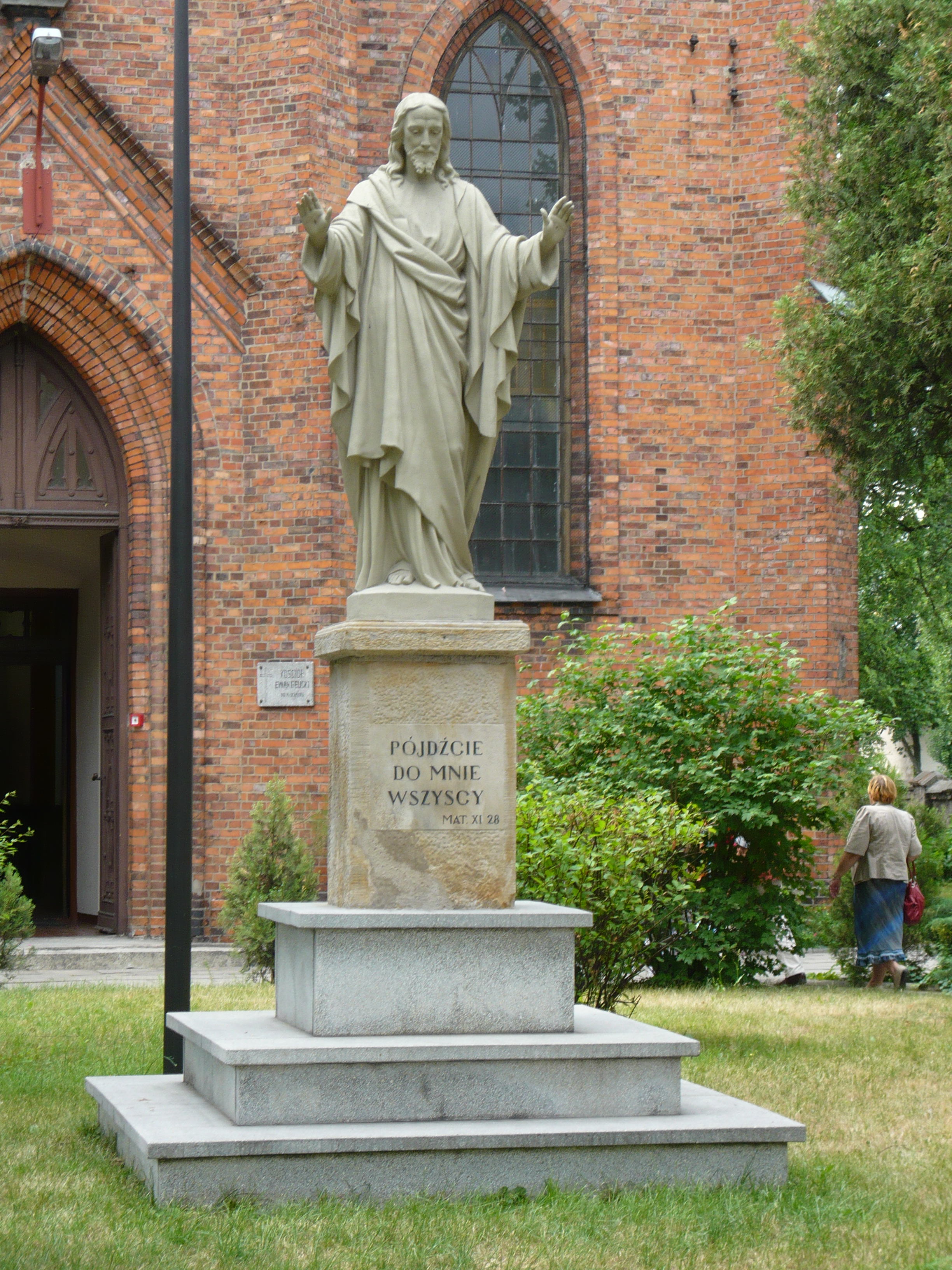 The monument of Jesus in front of the enter of Luterian Church in Włocławek.